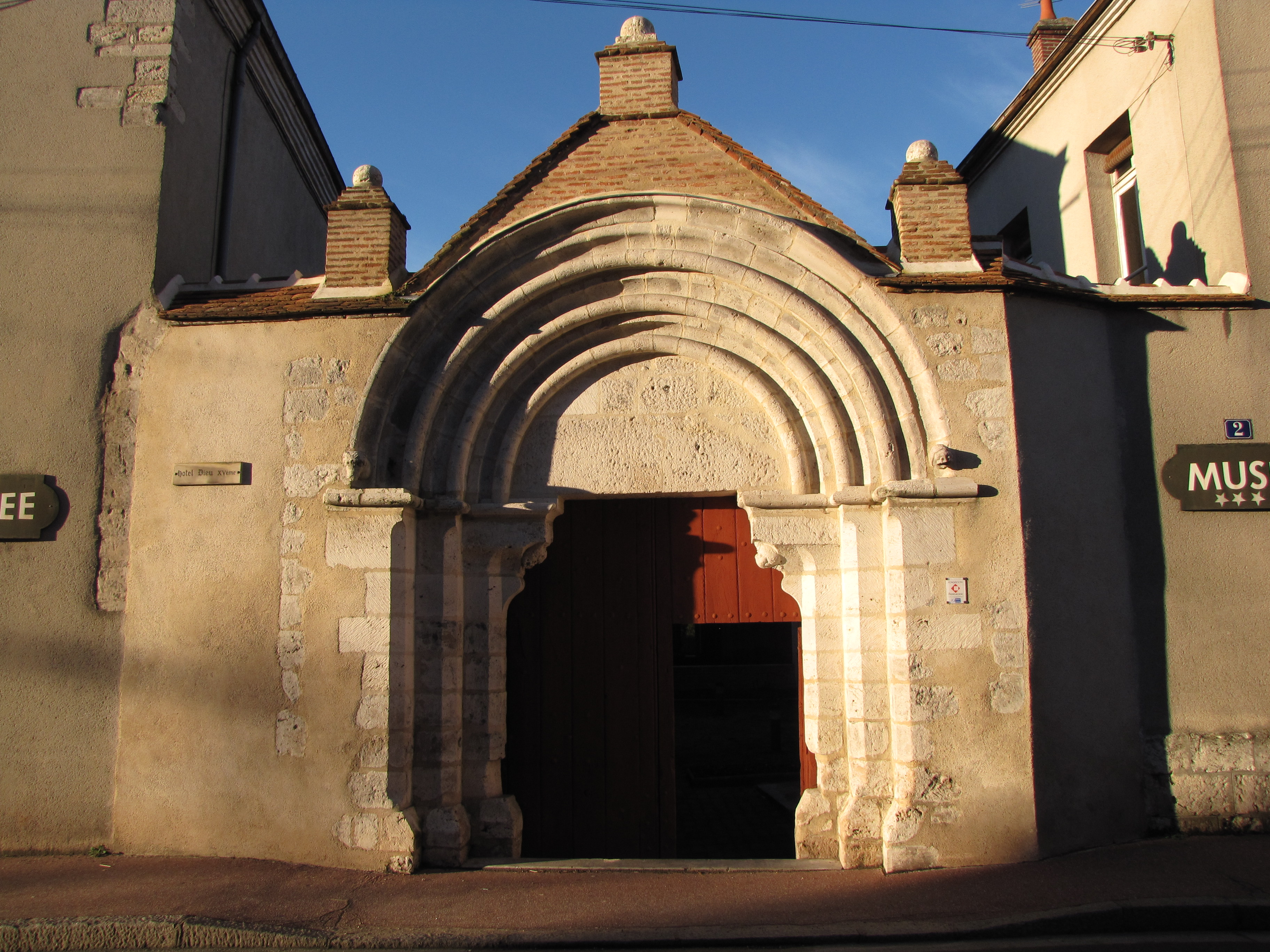 Châtillon-Coligny, Loiret, Centre region, France. Faubourg du Puyrault road: porch of the present day local museum, 12th century, pure roman style.